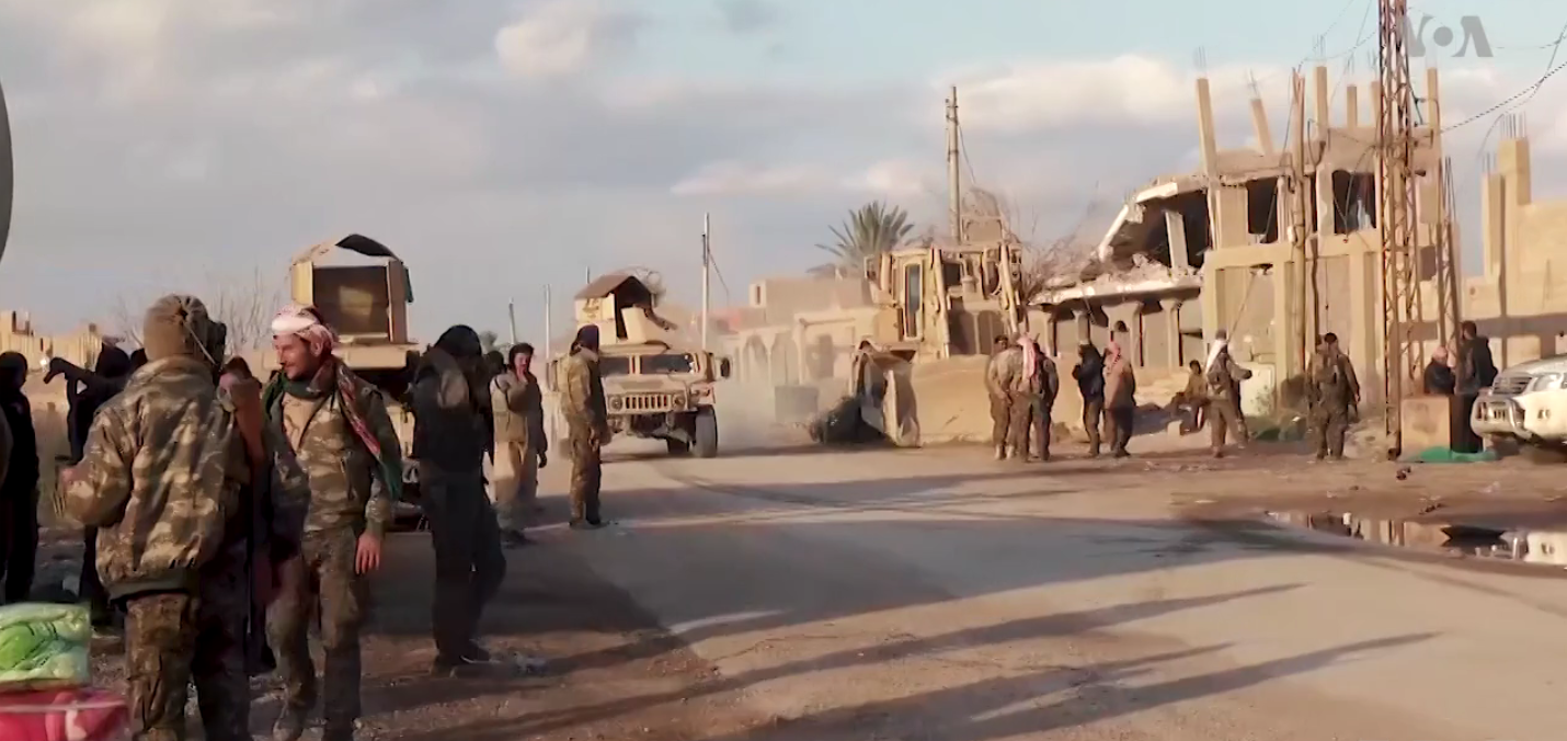 Islamic State fighters are resorting to producing acrid smoke and leveling suicide attacks to hamper the advances of the U.S.-backed forces on their last stronghold in eastern Syria, eyewitnesses and sources on the ground tell VOA.